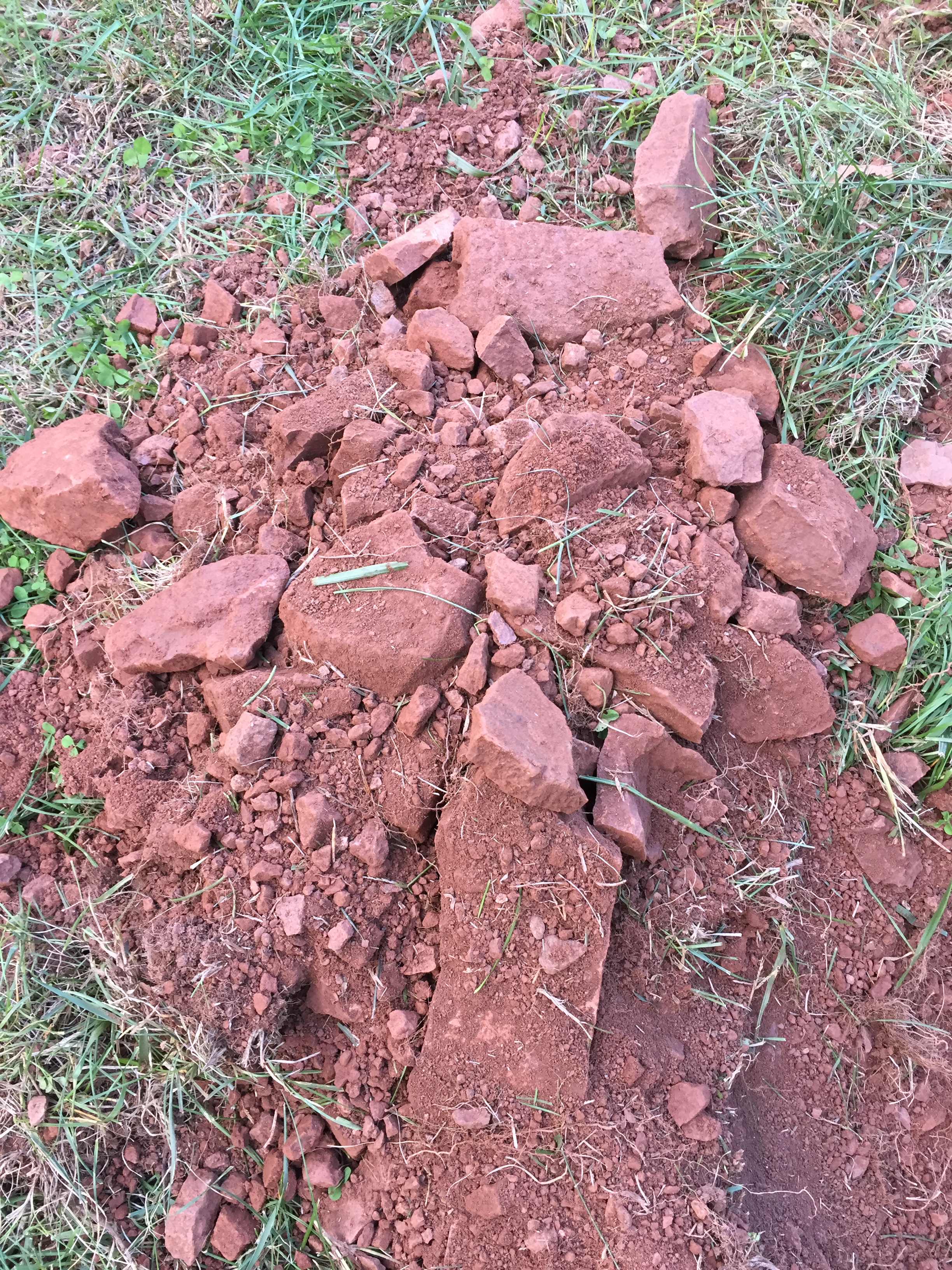 Native red shale and clay soil along Tranquility Court in the Franklin Farm section of Oak Hill, Virginia